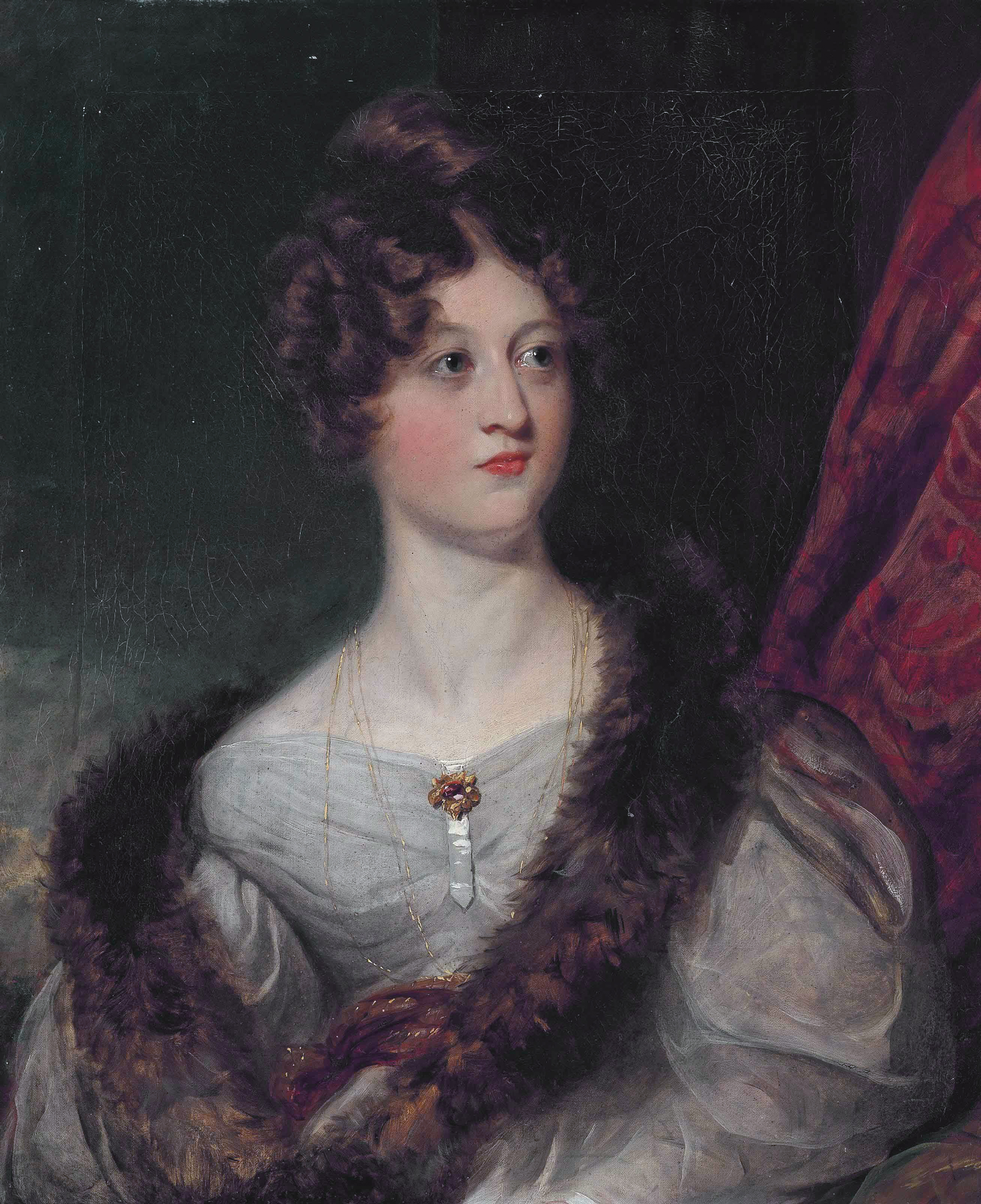 Maria Margaretta (née Murray), Lady Talbot de Malahide (d. 1873) oil on canvas 76.2 x 63.5 cm